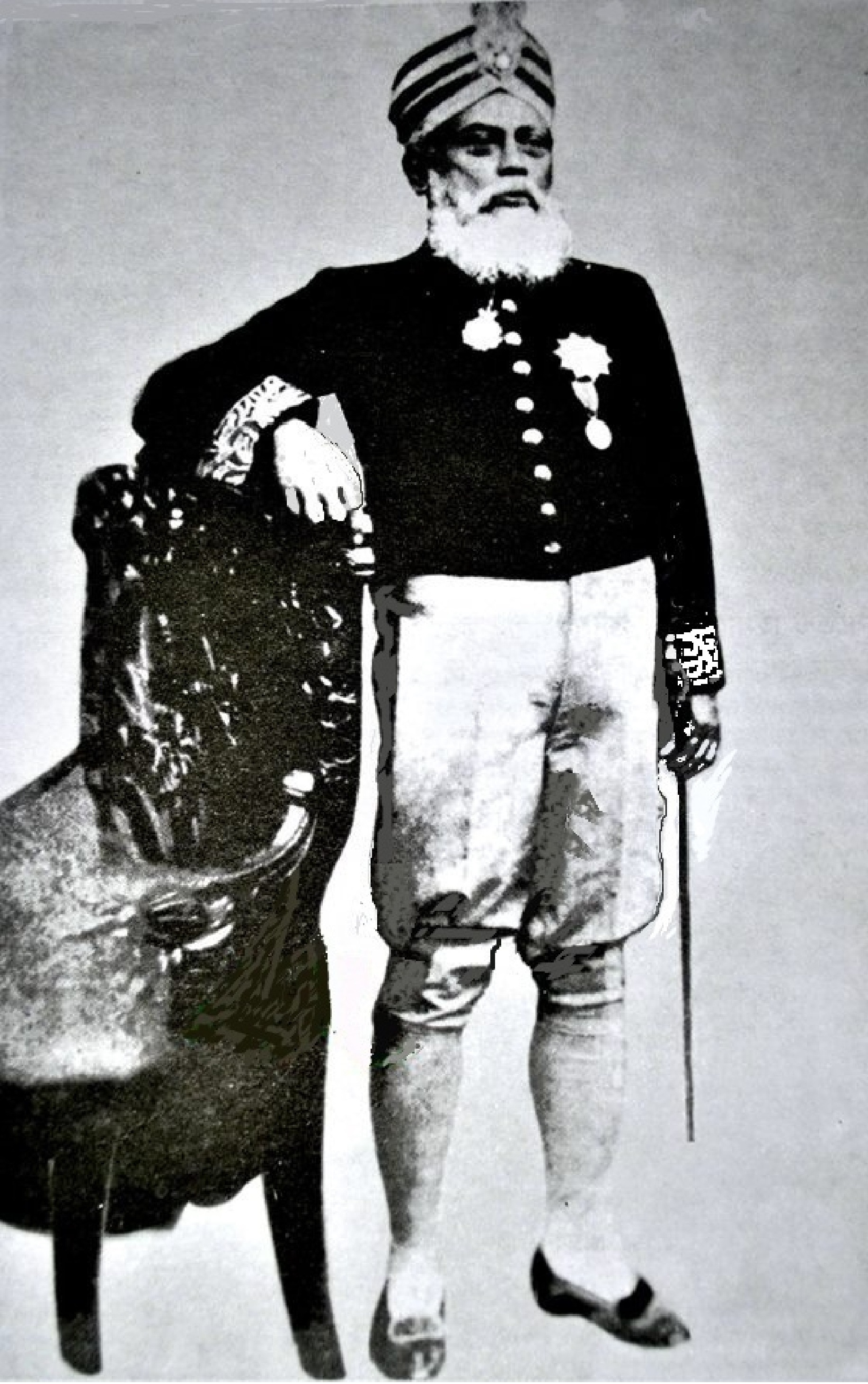 Syed Shamsul Huda Awarded Nawab in 1913